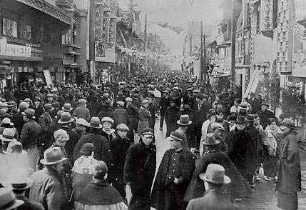 Dotonbori in 1930s